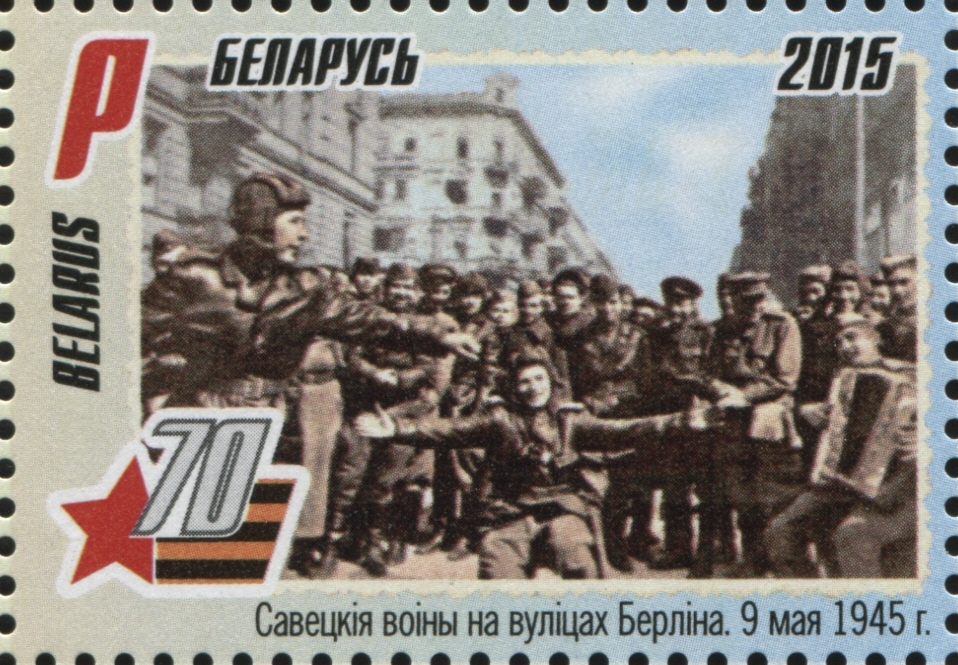 Stamps of Belarus, 2015